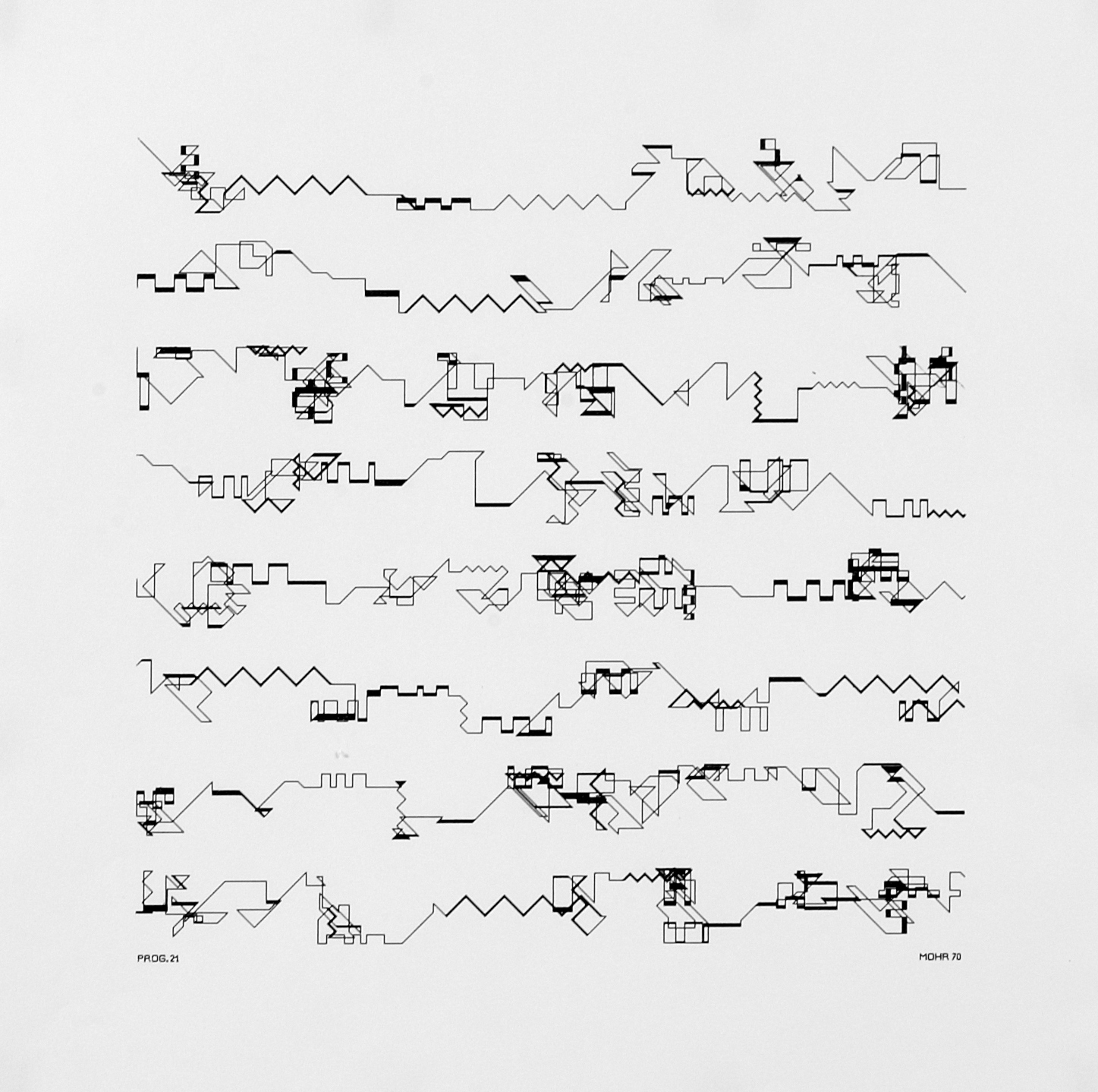 Work of Art "P021-G" by Manfred Mohr (1970). Plotter drawing on paper. 40 x 40 cm. Collection Spalter, USA